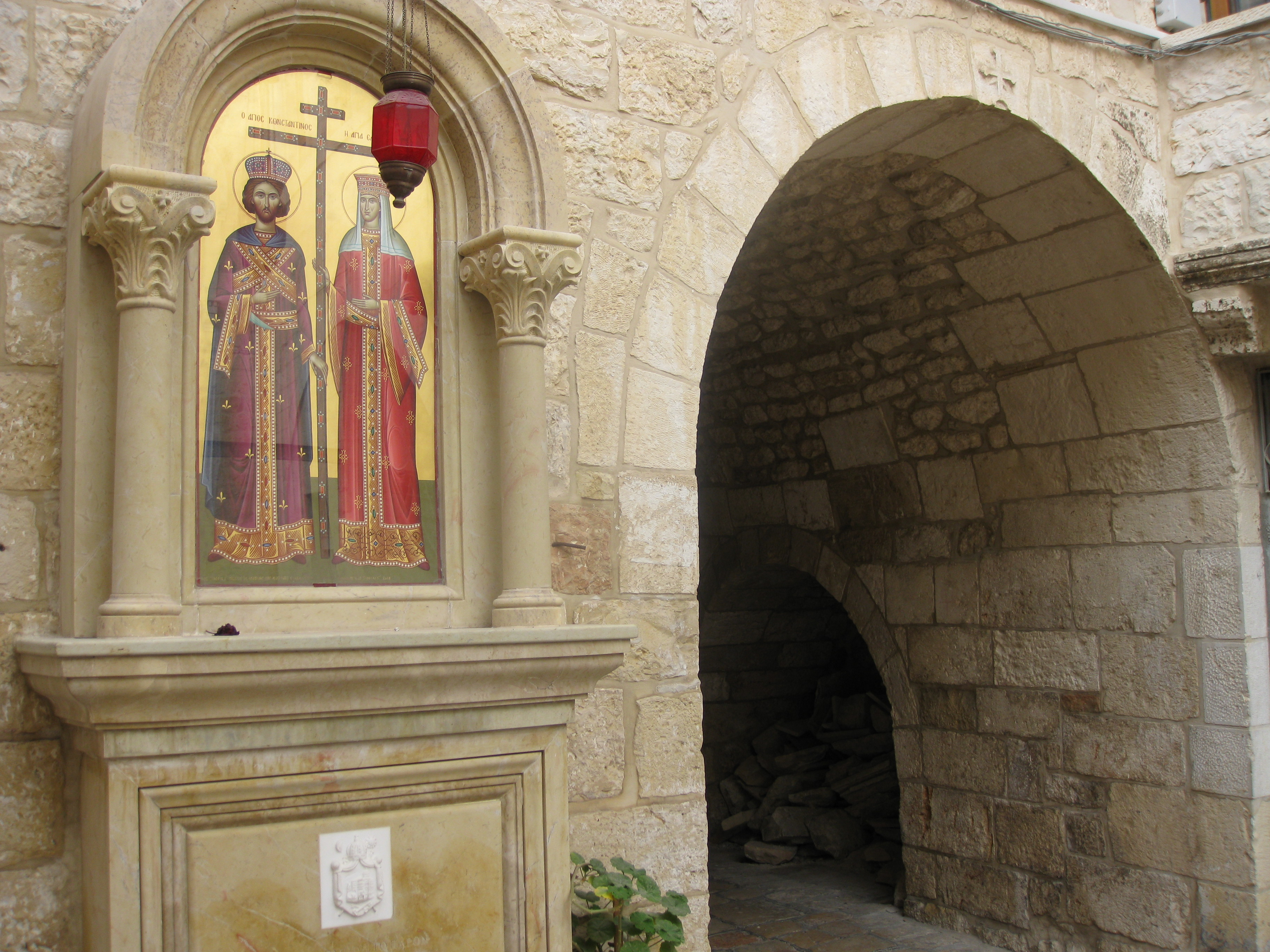 Greek Orthodox Patriarchate